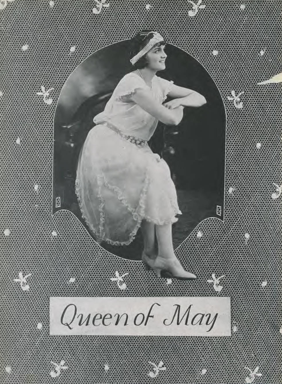 The Queen of May featured in East Texas State Teachers College's 1923 Locust yearbook.